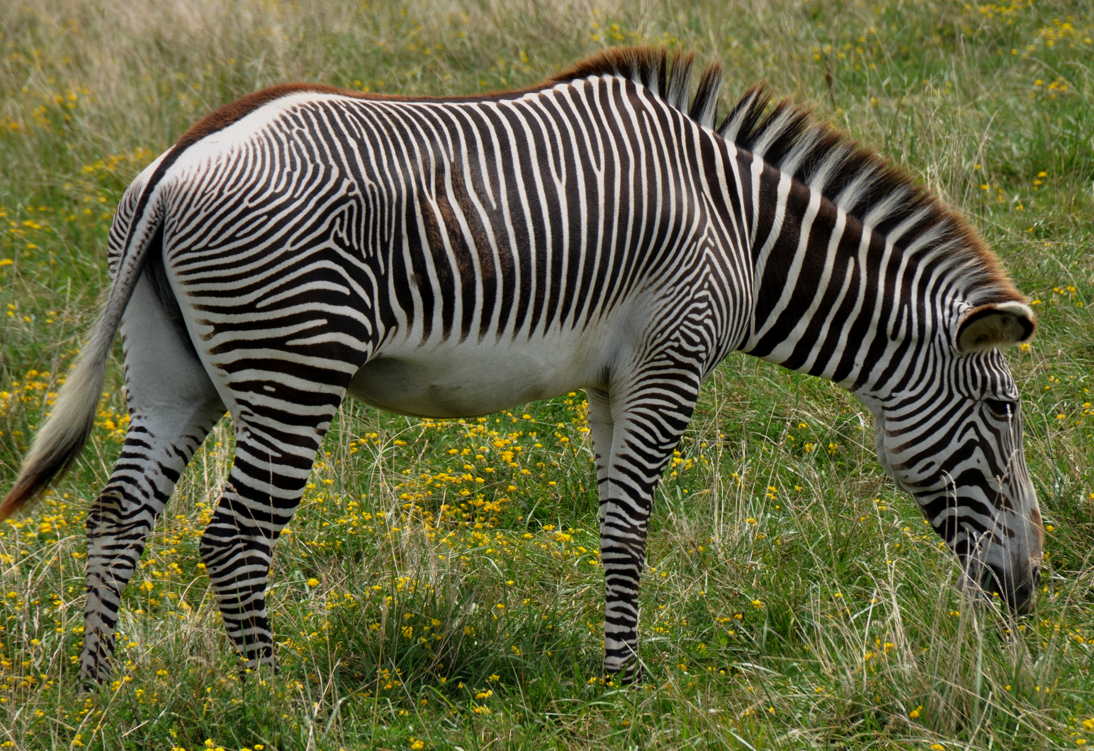 Grevy's Zebra